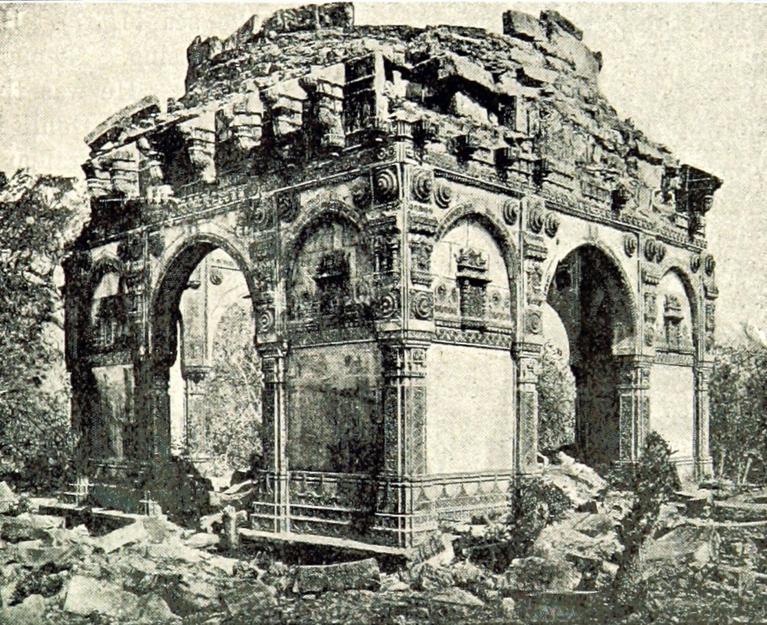 Image taken from: Title: "Bombay and Western India. A series of stray papers" Author: DOUGLAS, James - of Bombay Shelfmark: "British Library HMNTS 010056.h.10.", "British Library OC ORW.1986.a.2990" Volume: 01 Page: 355 Place of Publishing: London Date of Publishing: 1893 Publisher: Sampson Low & Co. Issuance: monographic Identifier: 000973604 Note: The colours, contrast and appearance of these illustrations are unlikely to be true to life. They are derived from scanned images that have been enhanced for machine interpretation and have been altered from their originals. If you wish to purchase a high quality copy of the page that this image is drawn from, please order it here. Please note that you will need to enter details from the above list - such as the shelfmark, the page, the book's volume and so on - when filling out your order. Explore: Find this item in the British Library catalogue, 'Explore'. Open the page in the British Library's itemViewer (page: 355) Download the PDF for this book Click here to see all the illustrations in this book and click here to browse other illustrations published in books in the same year. Please click on the tags shown on the right-hand side for other ways to browse the illustrations.